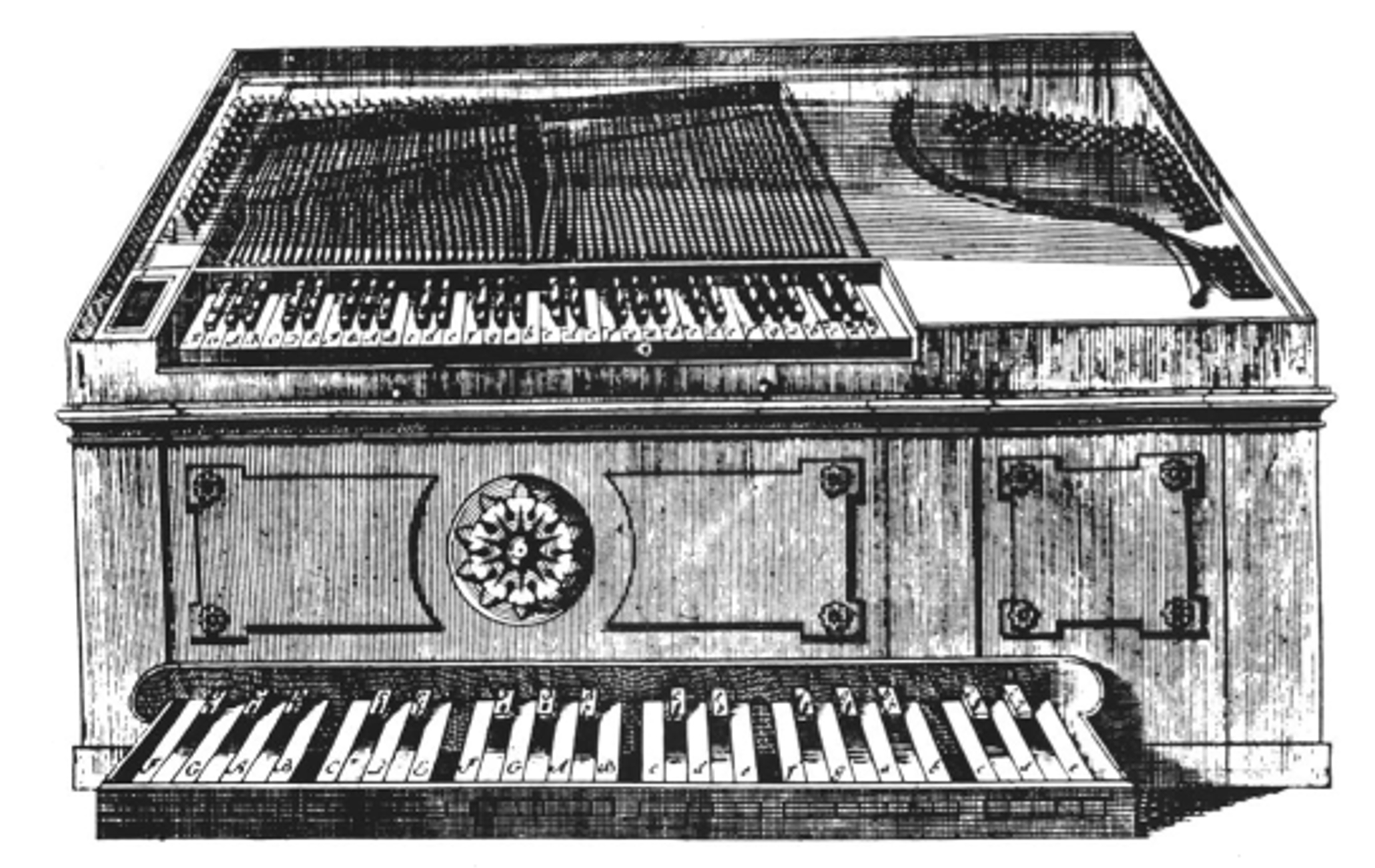 Engraving of a pedal clavichord published in Muzijkaal kunst-woordenboek